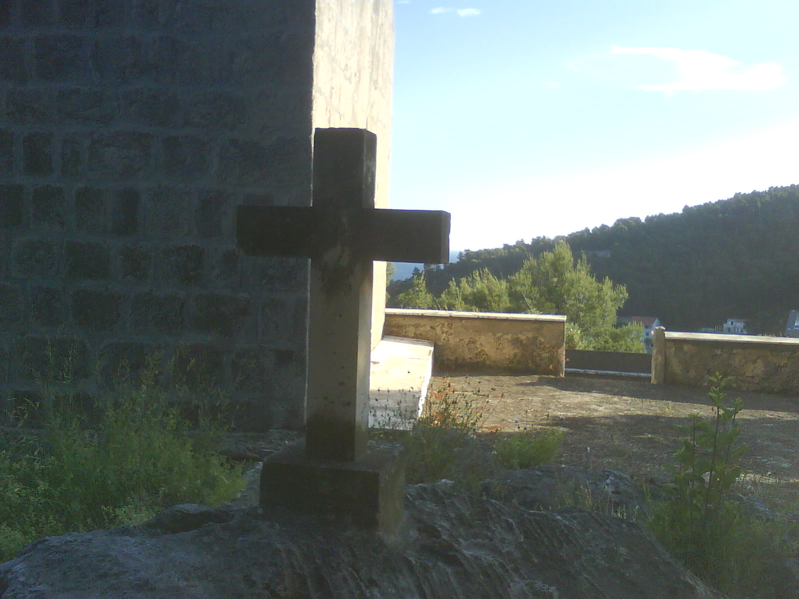 village Trstenik,municipality of Orebić